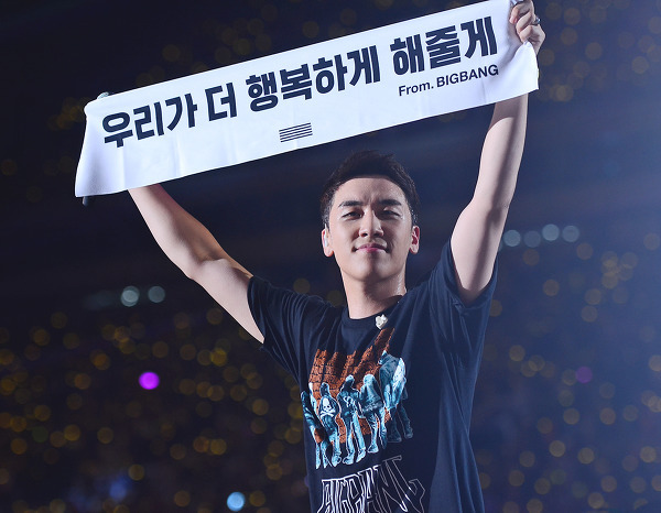 Seungri in Big Bang concert 0.To.10 in Seoul - August 20, 2016